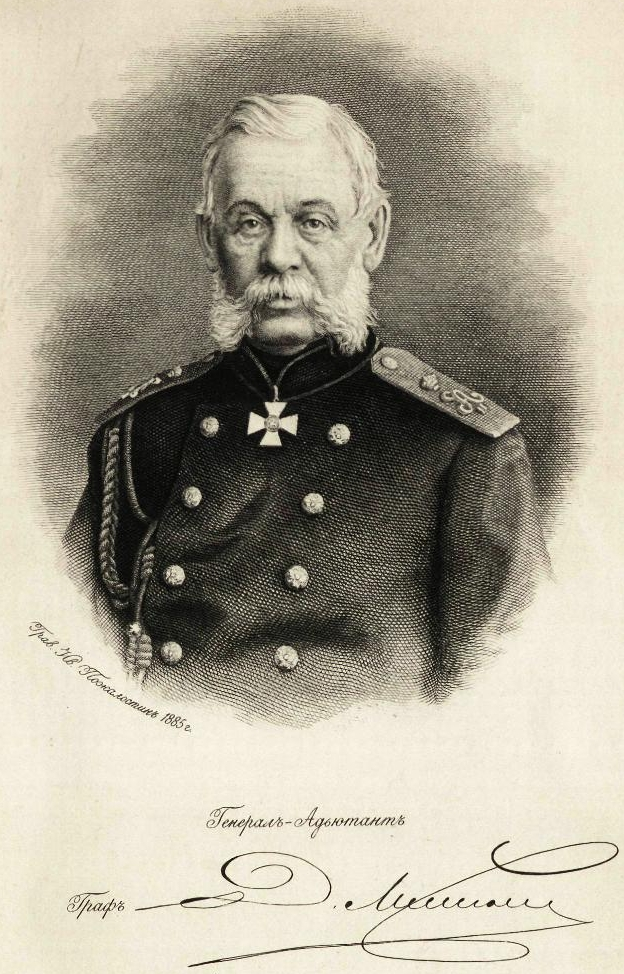 Dmitry Milyutin